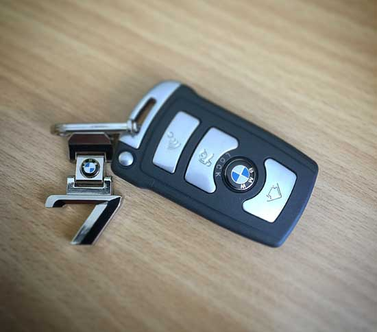 BMW E65 remote key fob